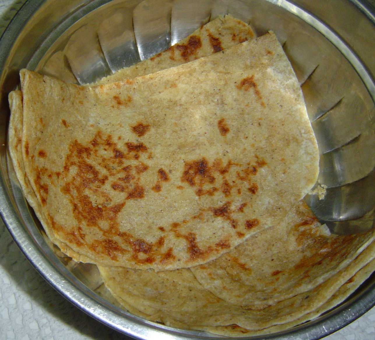 A type of bread (similar to Roti) stuffed with grated coconut and Gur.